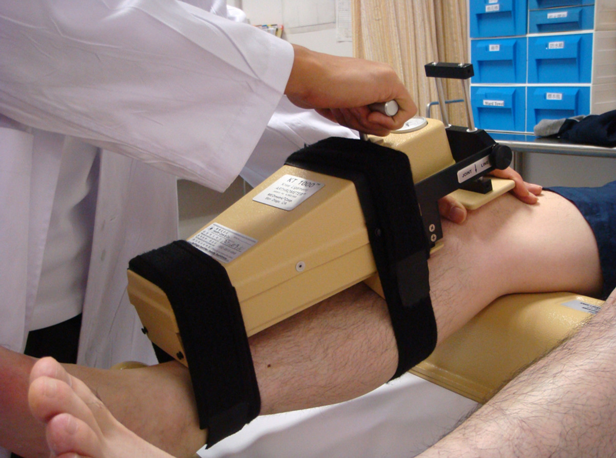 KT-1000 to measure anterior-posterior laxity of the knee.